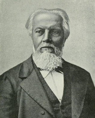 German composer and teacher Bernhard Scholz (1835—1916). Picture from the book of Eugène d'Harcourt "La musique actuelle en Allemagne et Autriche-Hongrie. Conservatoires, Concerts, Théâtres" (Paris, 1908)